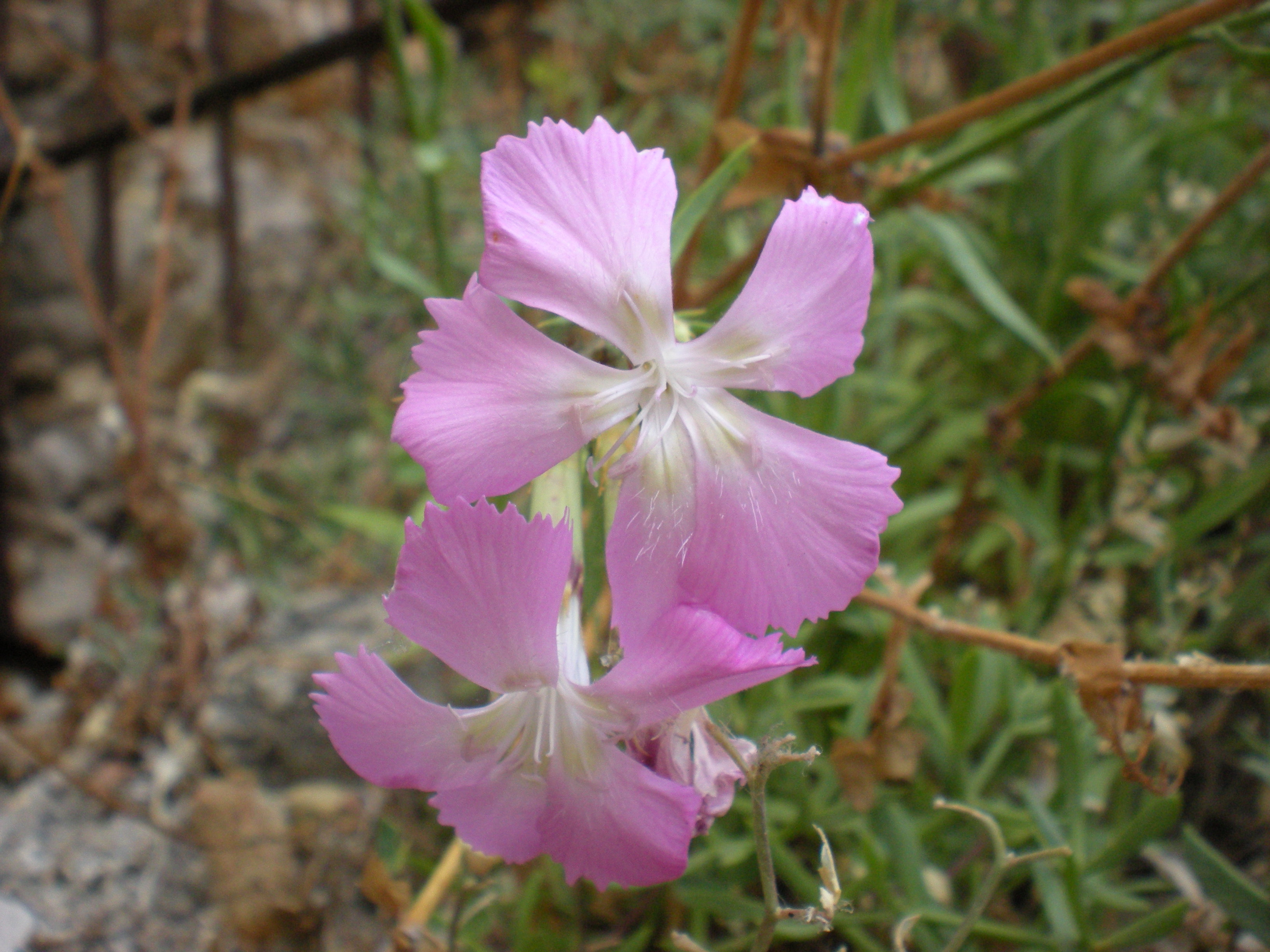 Sicilian botanical endemisms Dianthus rupicola